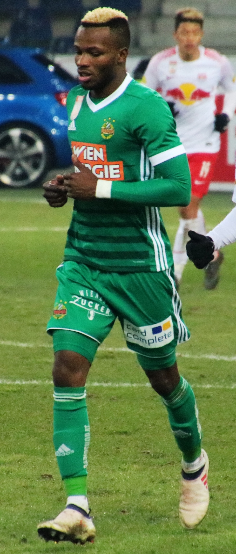 league match Austrian Bundesliga